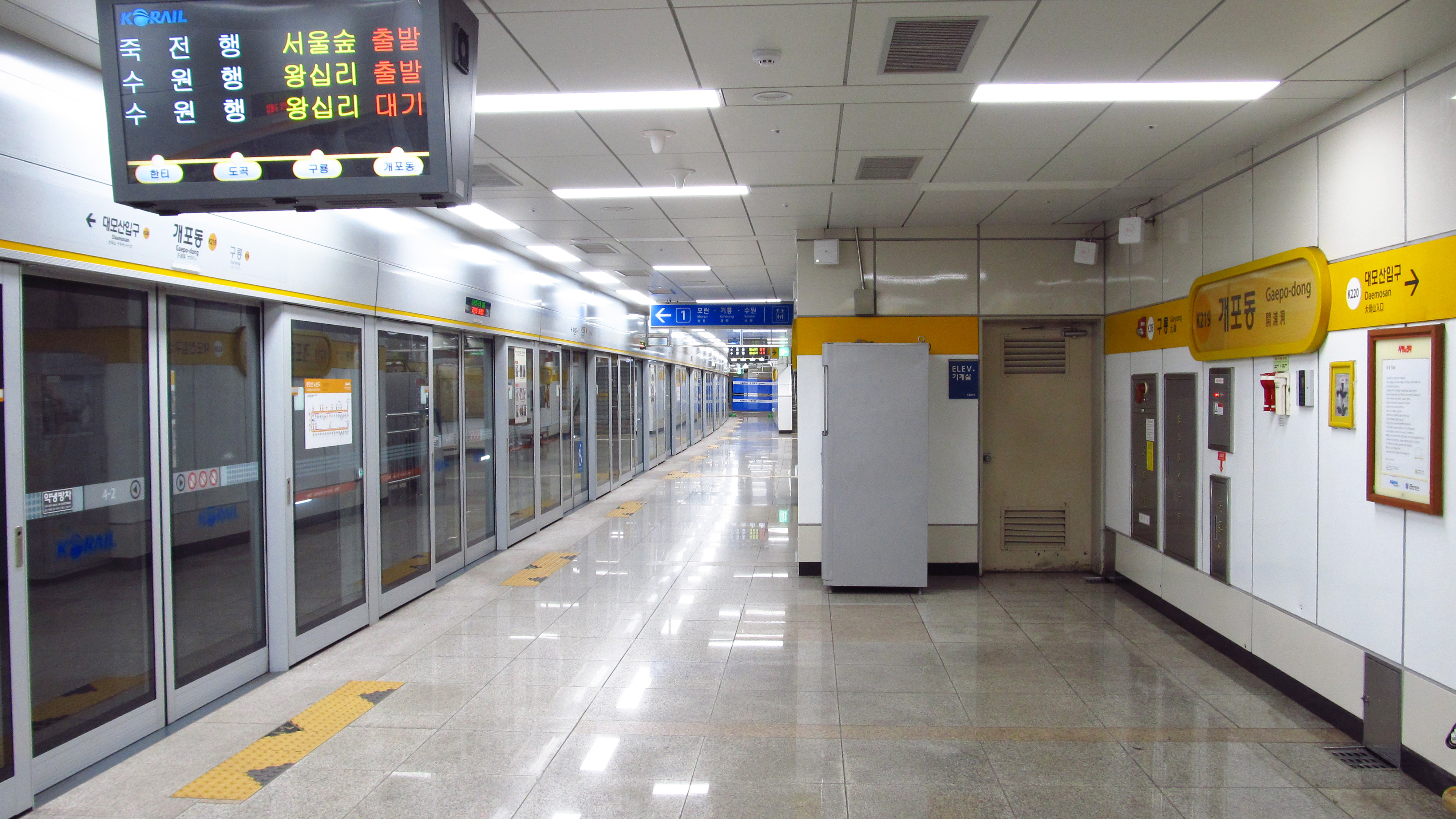 The platform at Gaepo-dong Station on Bundang Line in Gangnam-gu, Seoul, Republic of Korea(South Korea)